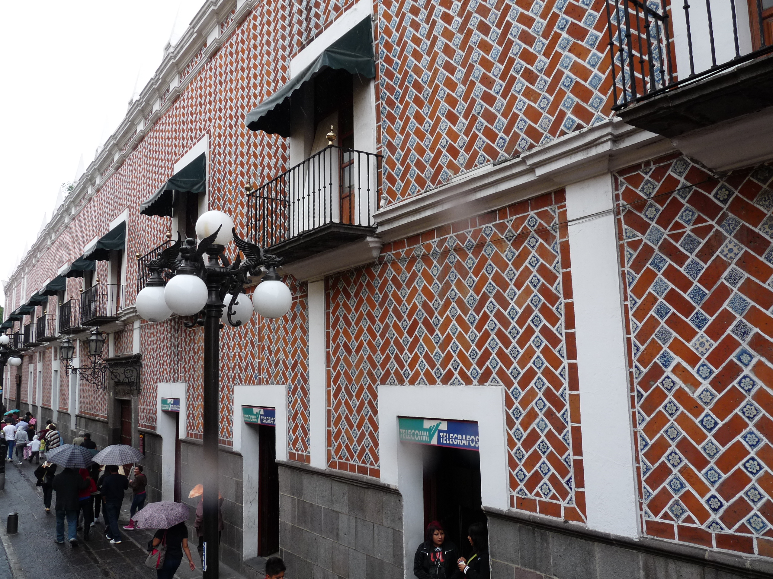 Exterior tiled walls and iron balconies of the Biblioteca Palafoxiana — in the Centro Histórico of Puebla city, in Puebla state, central México.